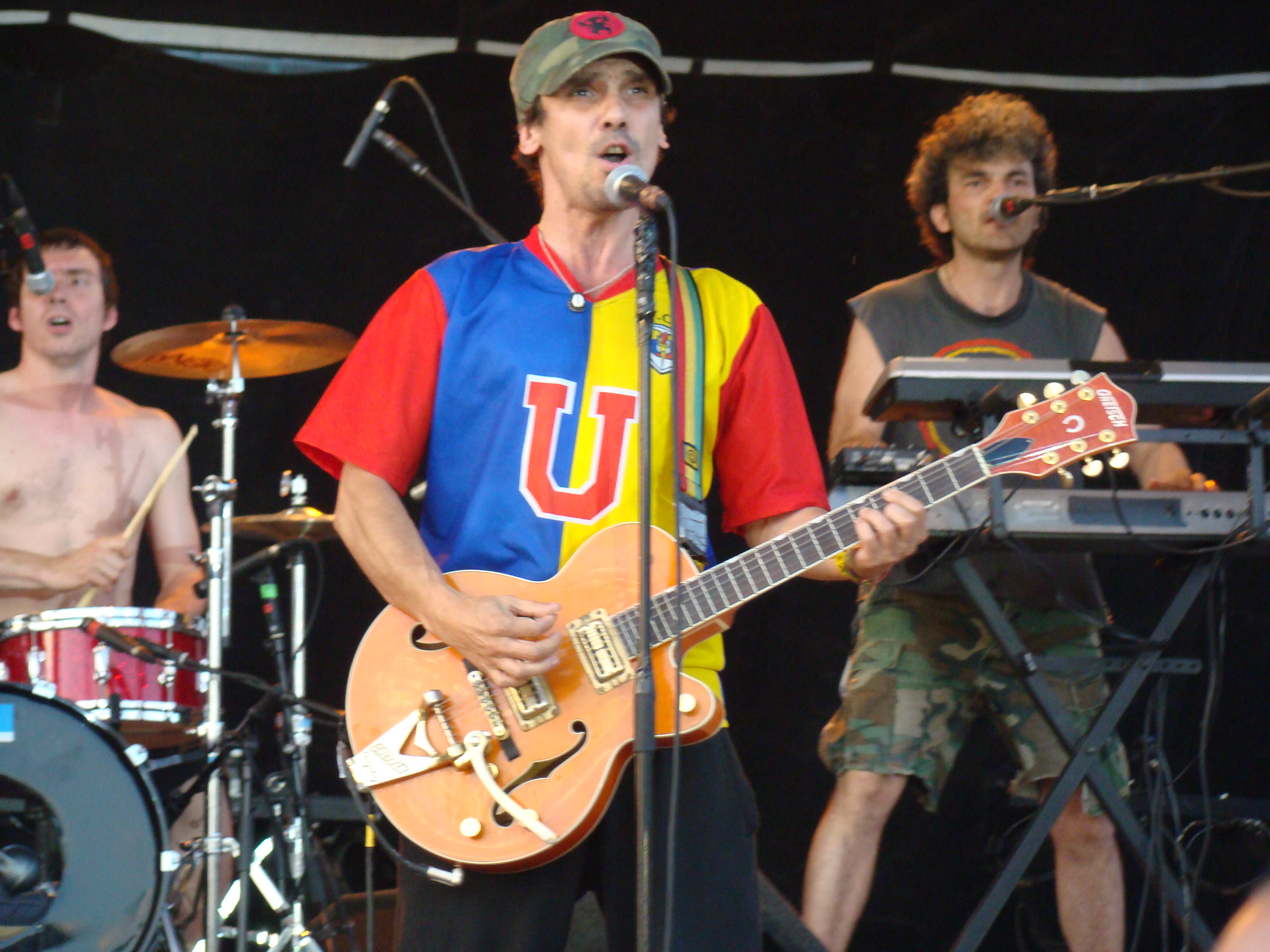 Concert of Manu Chao in Bondy (France) stadium Léo Langrange for Fête de la Musique and 20th edition of festival "Ya d'la banlieue dans l'air",with the shirt of the Central University of Venezuela team